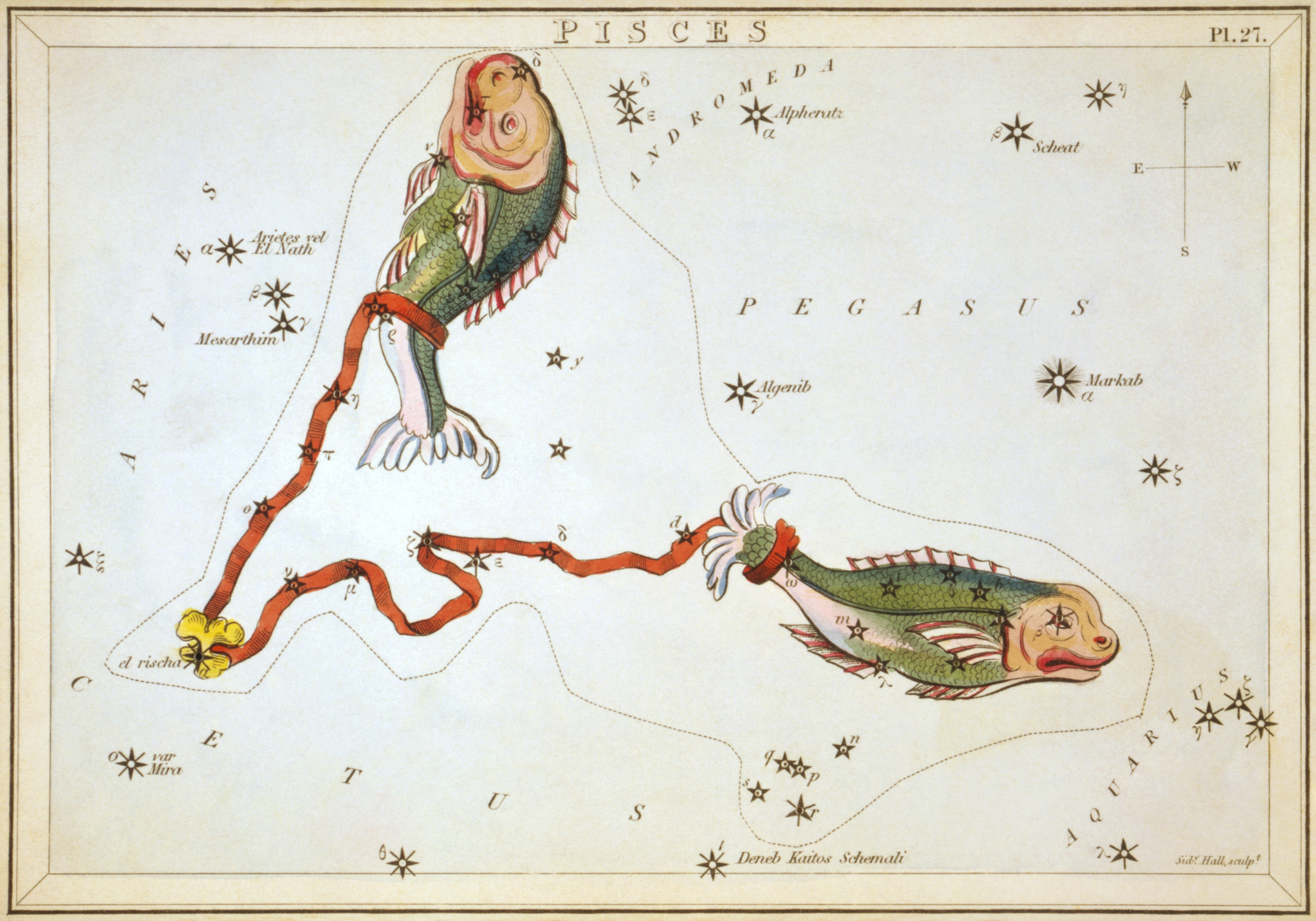 "Pisces", plate 27 in Urania's Mirror, a set of celestial cards accompanied by A familiar treatise on astronomy ... by Jehoshaphat Aspin. London. Astronomical chart, 1 print on layered paper board : etching, hand-colored.